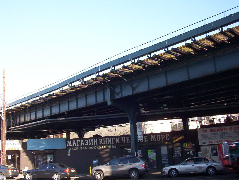 A Russian-language bookstore called "Black Sea Bookstore" (Магазин Книги Черное Море) underneath the elevated subway at Coney Island Avenue, Brighton Beach, New York. December 2005.